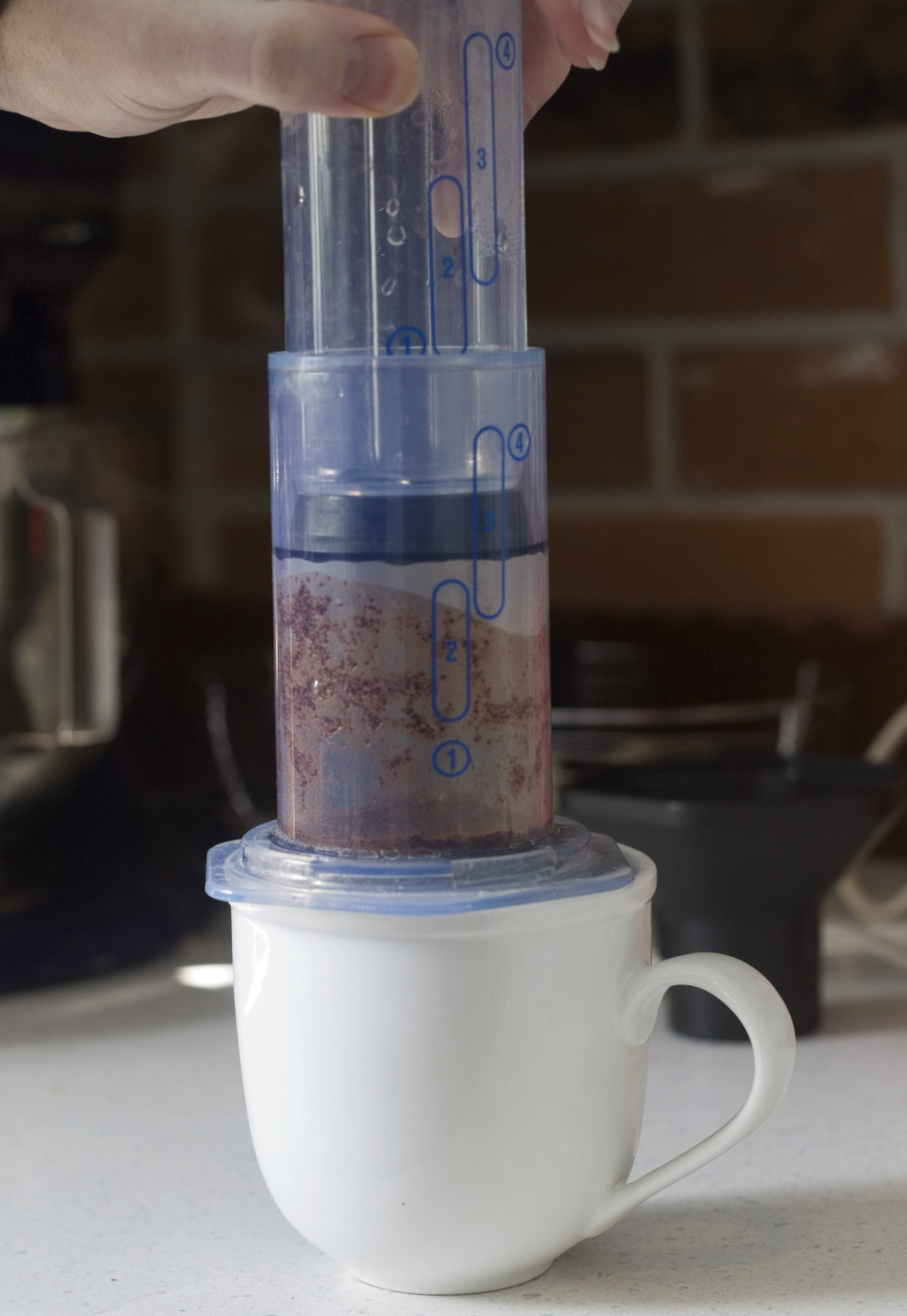 Brewing coffee with aeropress